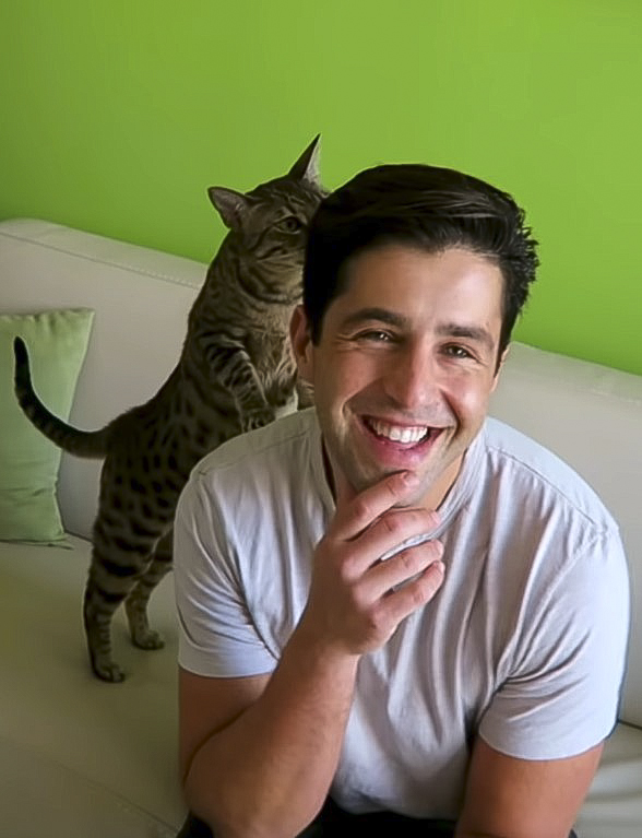 Josh Peck with a cat in a video in 2019